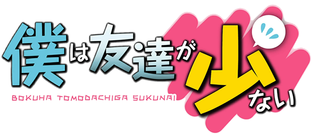 Boku wa tomodachi ga sukunai original japanese logo.